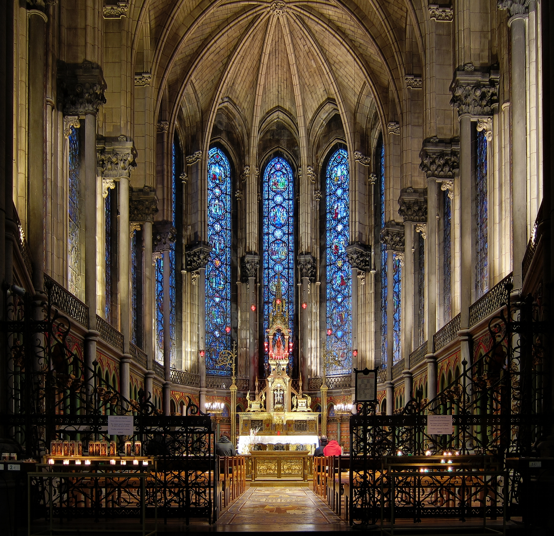 The Saint Chapel in Notre-Dame-de-la-Treille Cathedral in Lille (France - Nord department).